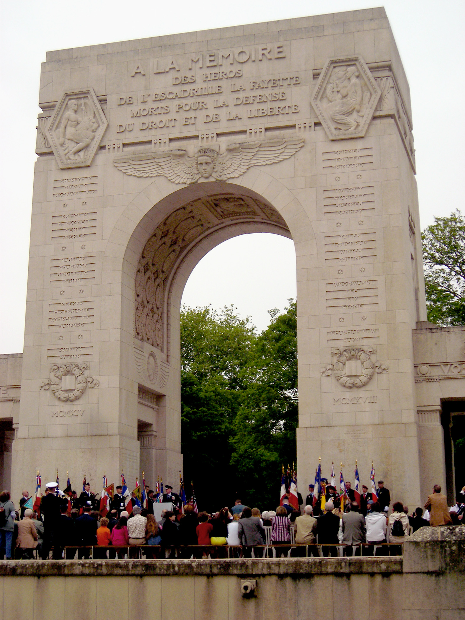 General Roger Brady gives his remarks during a dignified ceremony at the Lafayette Escadrille Memorial outside of Paris, May 27, 2010. U.S. and French civilian and military leaders paid their respects to America's first combat pilots during the event. The Lafayette Escadrille Memorial is a reminder for all of the American pilots of the Escadrille La Fayette and the Lafayette Flying Corps who died during service to the Allies during World War I. General Brady is the U.S. Air Forces in Europe commander.